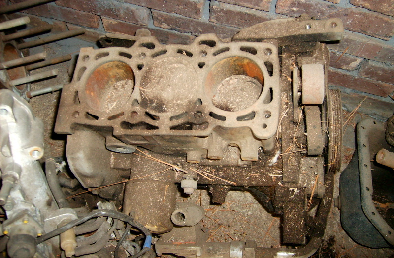 Here is a Subaru EF10 block laying in my shop.